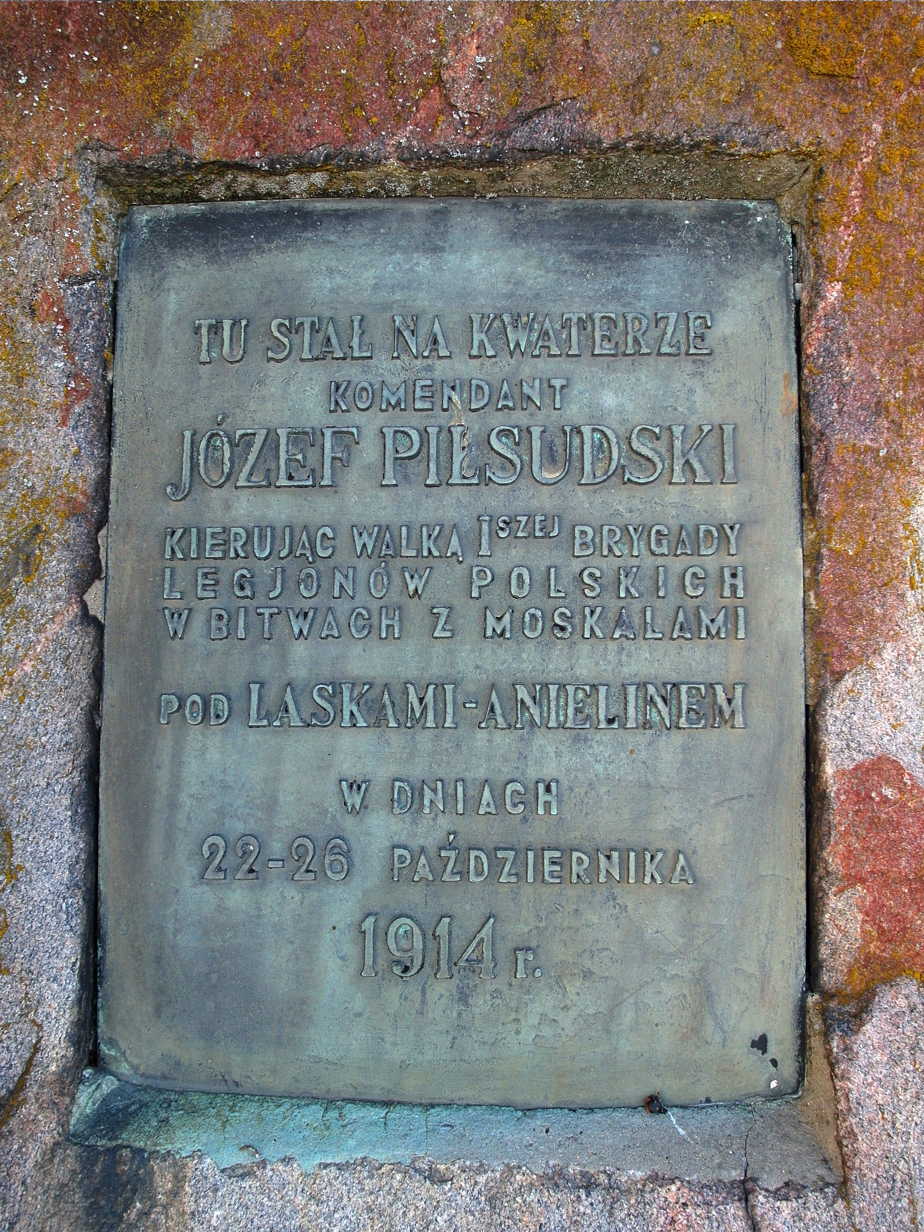 Plaque commemorating the stationing of Józef Piłsudski during the battle of Laski-Anielin 1914